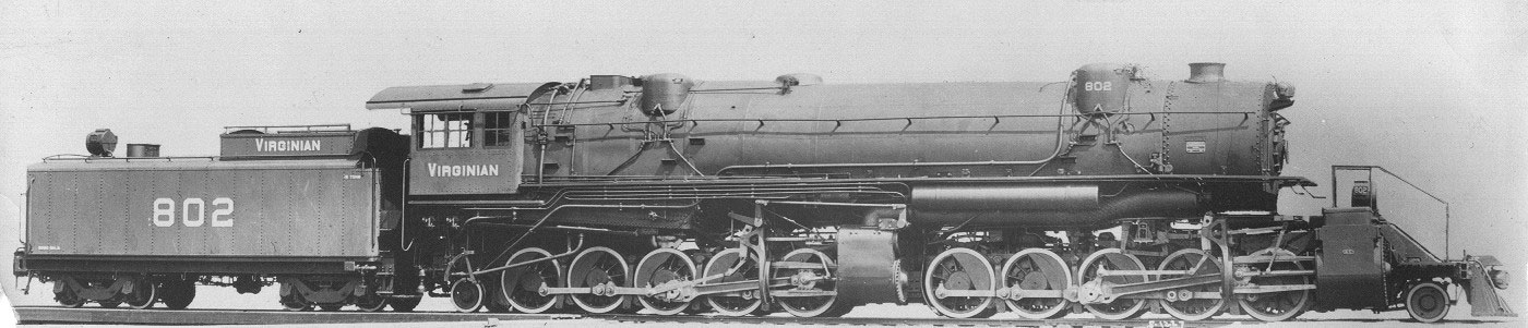 Virginian Railway 2-10-10-2 class AE steam locomotive #802. Builder's photo, 1911.